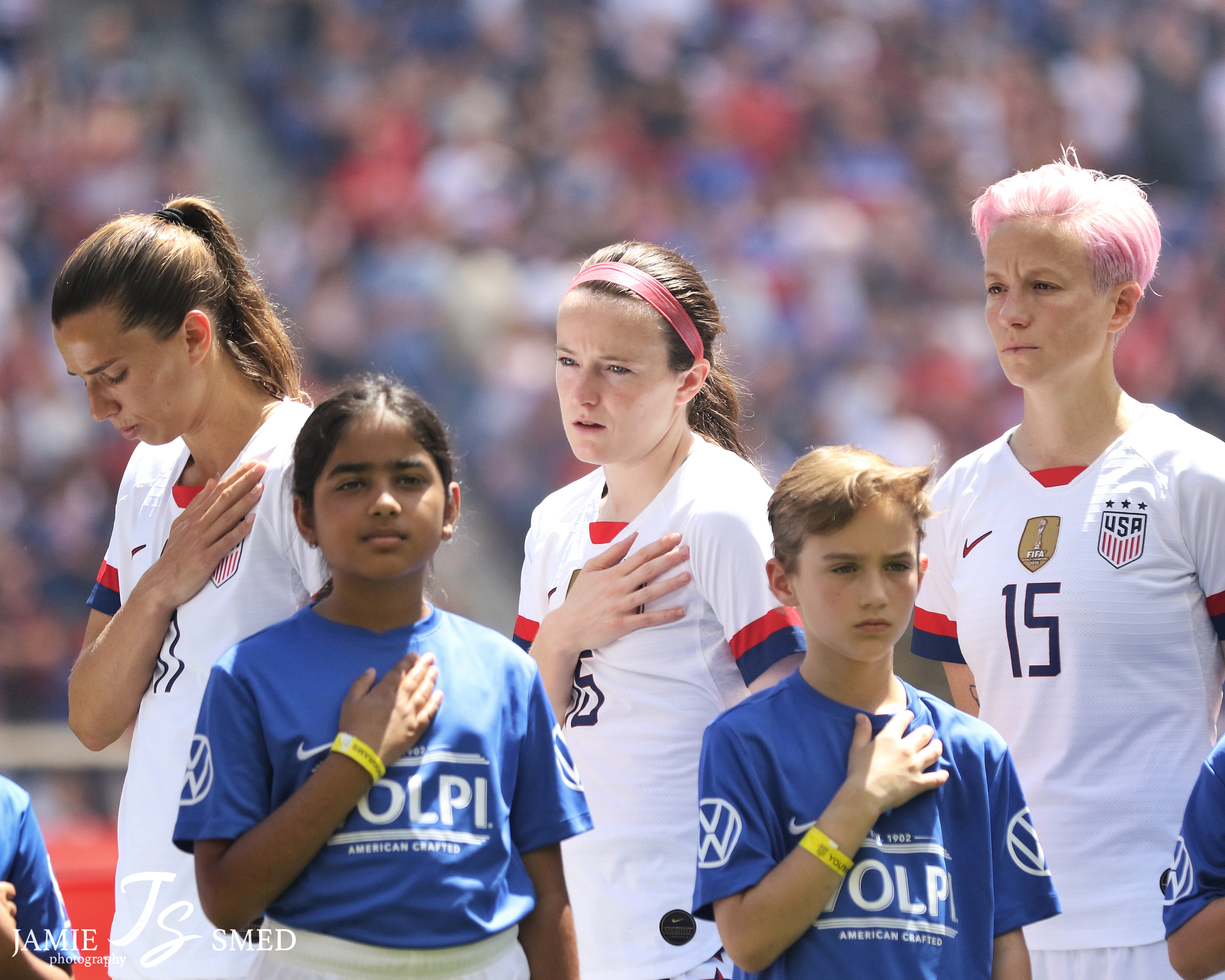 Tobin Heath, Rose Lavelle & Megan Rapinoe